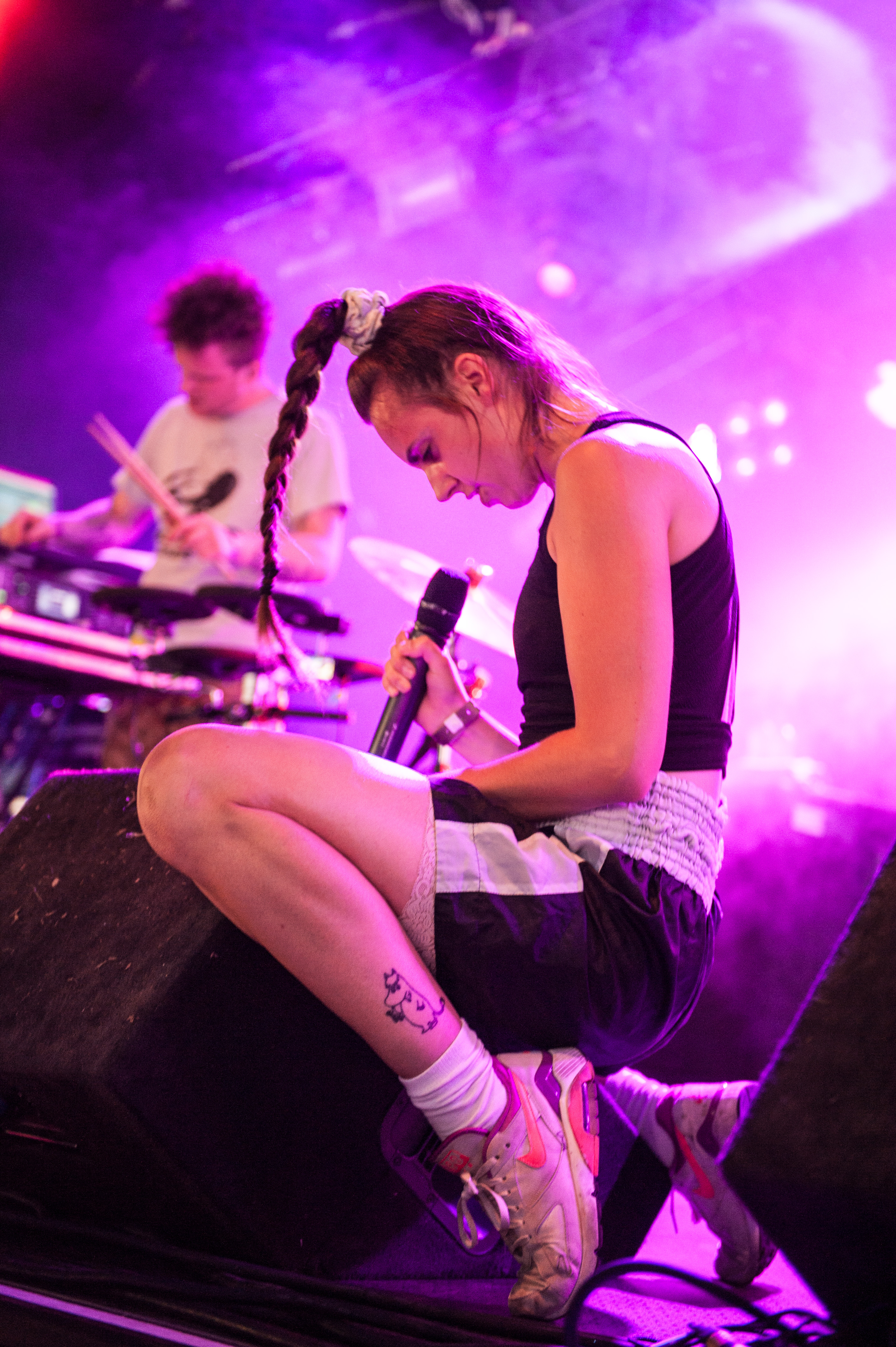 Mø at Way Out West in Gothenburg, Sweden, August 2014